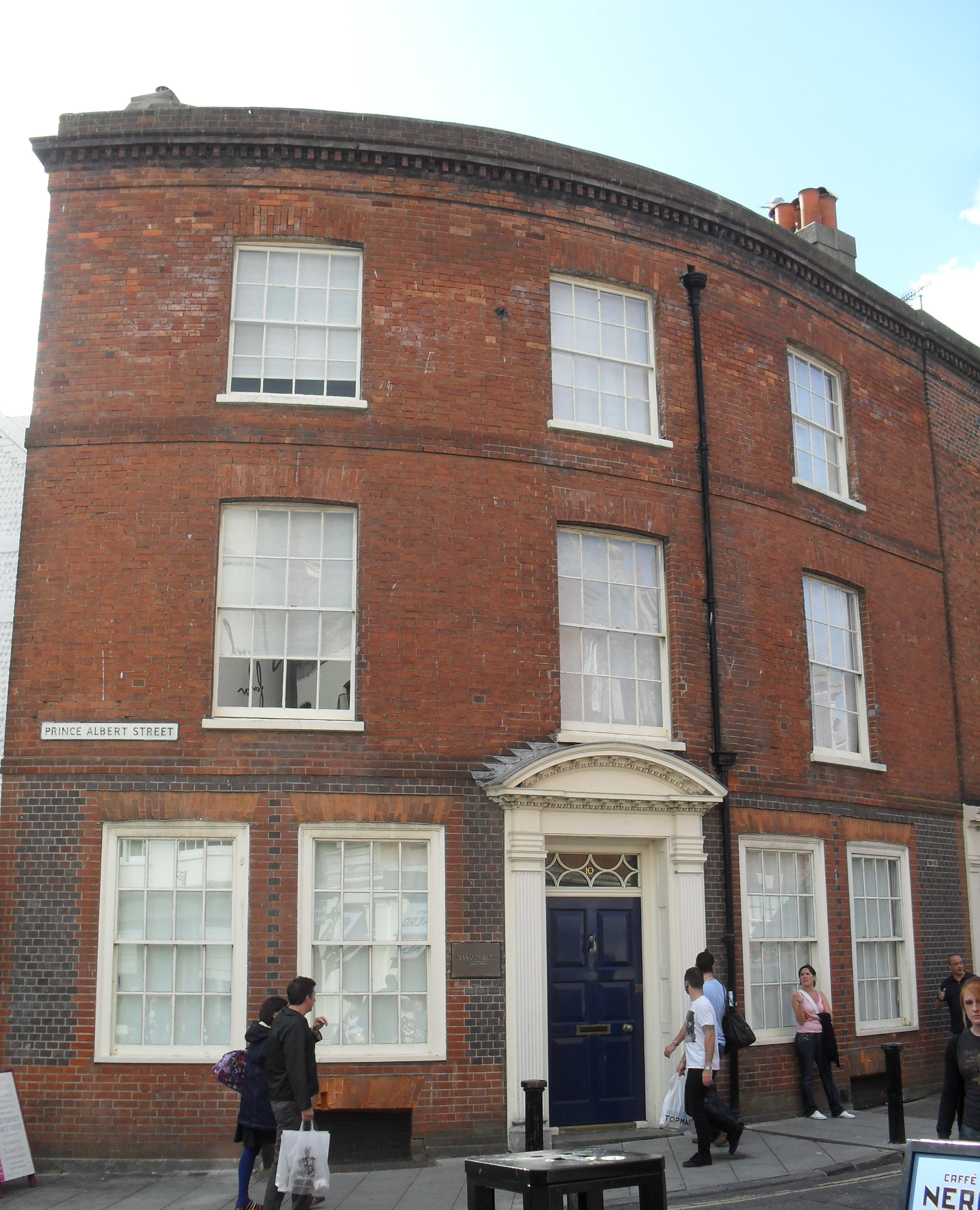 10 Prince Albert Street, The Lanes, Brighton, City of Brighton and Hove, England. A building dating from either the late 18th century or the 1840s, refronted and considerably rebuilt by the architecture firm Clayton & Black after they took it over as their offices in 1904. Listed at Grade II by English Heritage (IoE Code 481089)